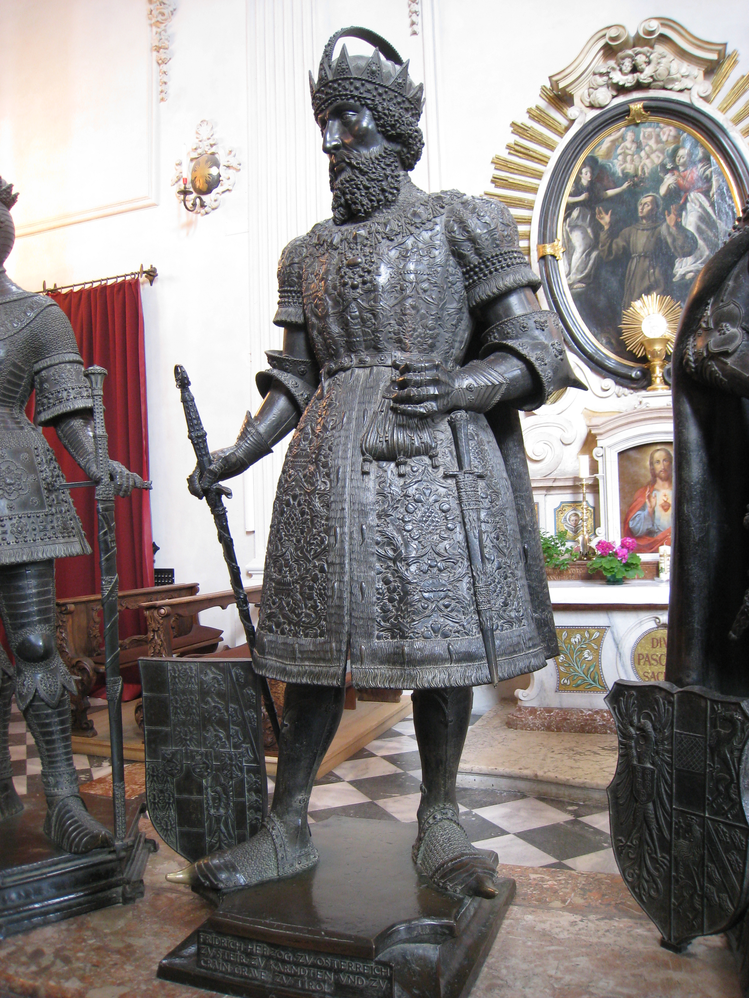 Statue within Hofkirche, Innsbruck, Austria. This statue is old enough so that it is not covered by any copyright.